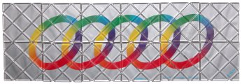 Rubik's Cube: Master Edition (initial state)